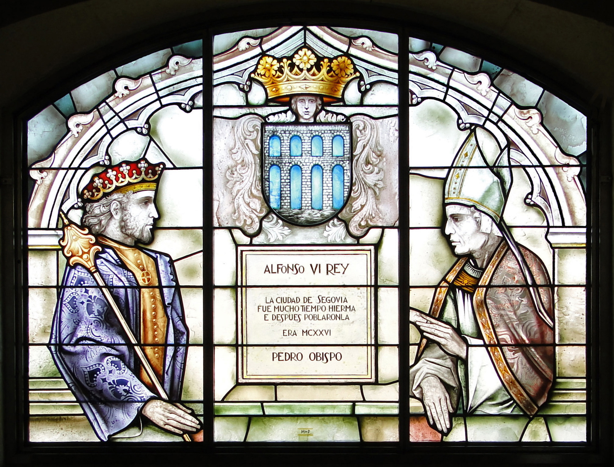 Stained glass in Queen's Dressing Room of Alcázar of Segovia. It depicts King Alfonso VI of León and Castile and bishop Peter. Located in Segovia, Spain.